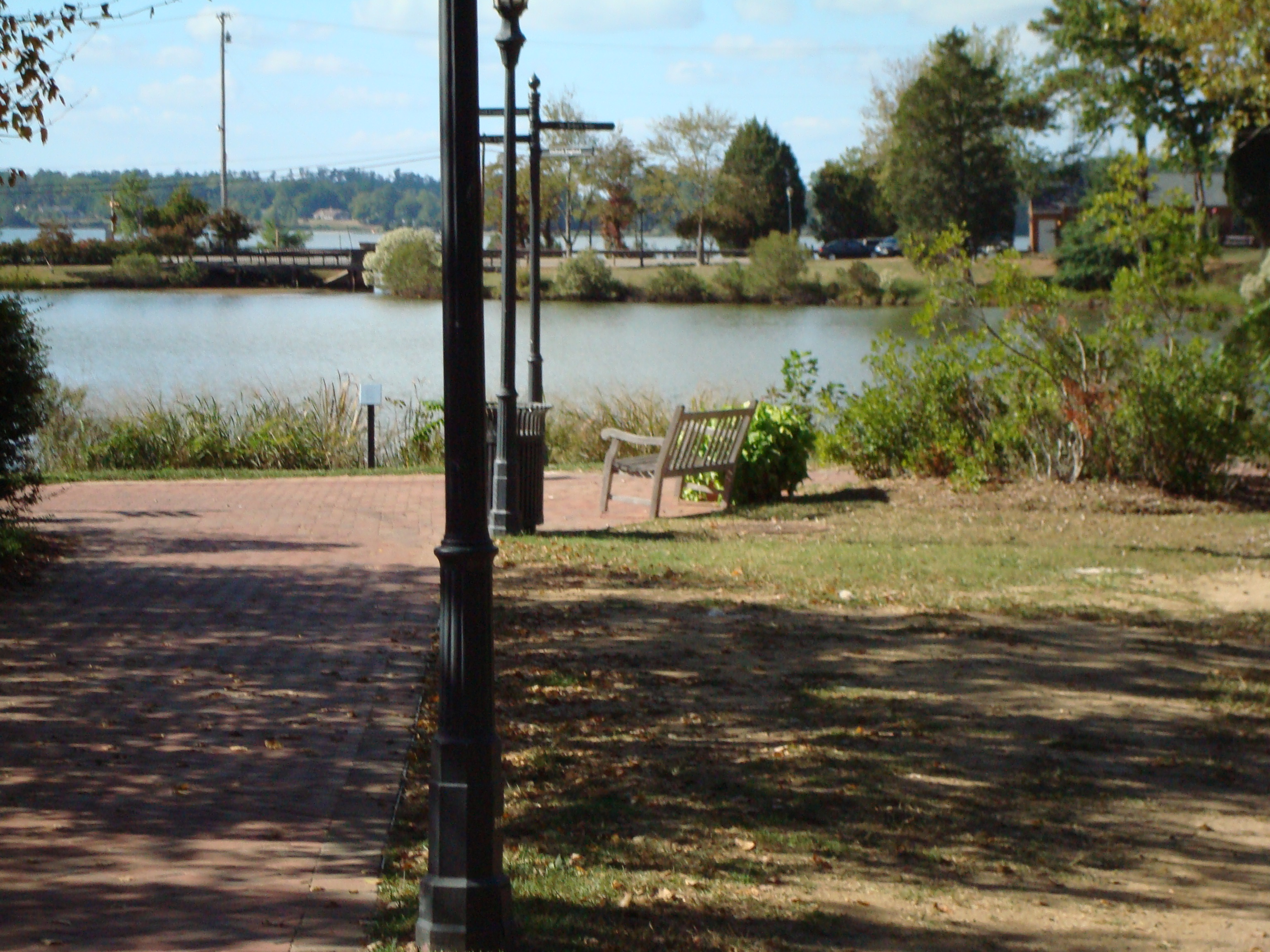 A view of the crossroads and St. John's Pond, located on the campus of St. Mary's College of Maryland.